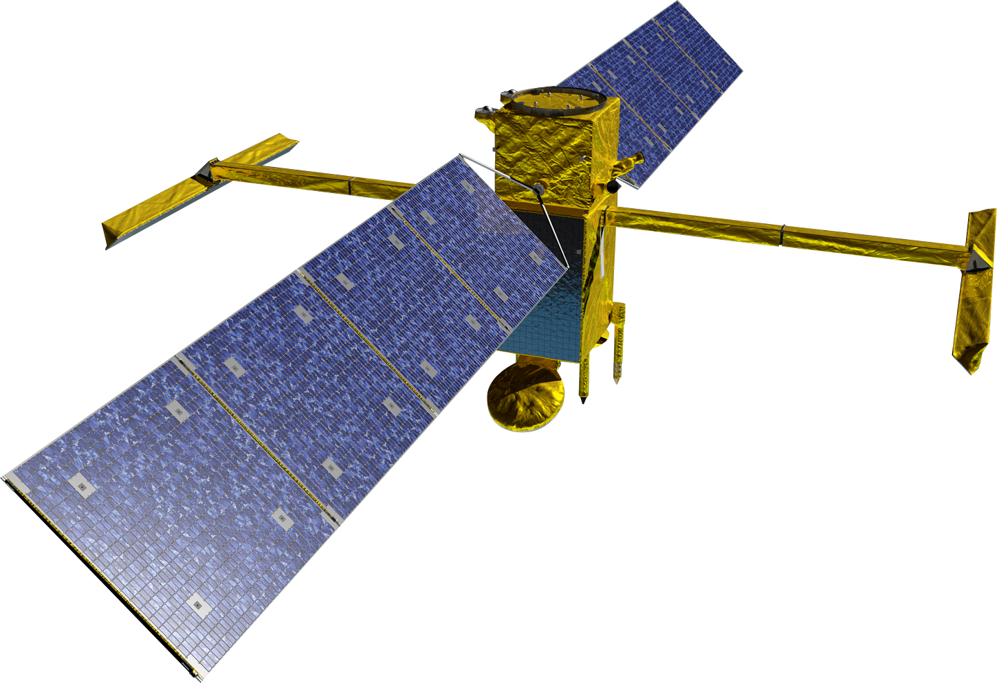 Image of the Surface Water and Ocean Topography spacecraft with transparent background.